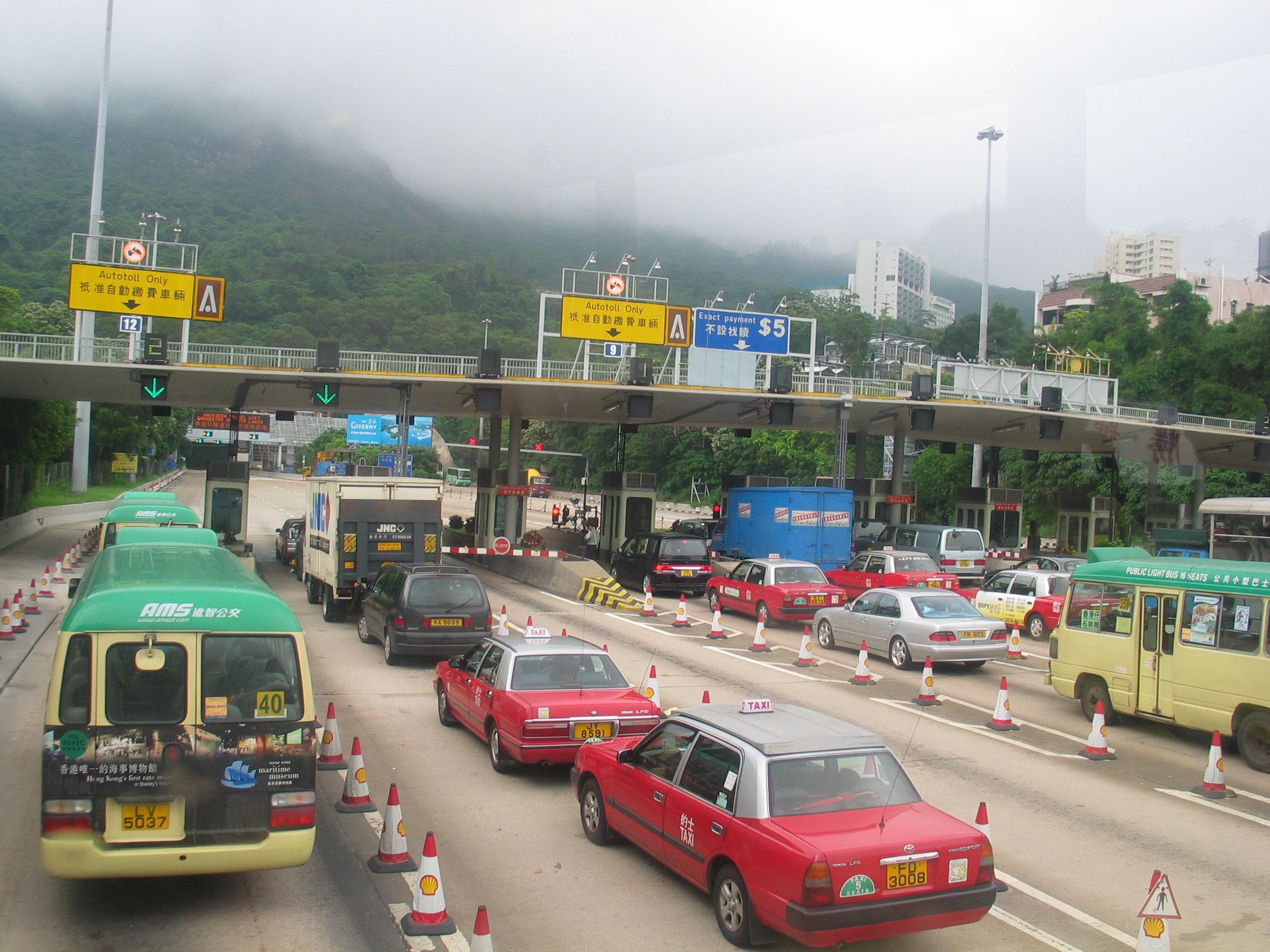 Toll Plaza of Aberdeen tunnel of Hong Kong under congestion